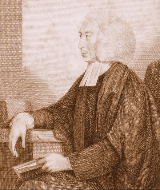 Thomas Randolph, D.D. archdeacon of Oxford, American theologian and educator. President of Corpus Christi College, University of Oxford.